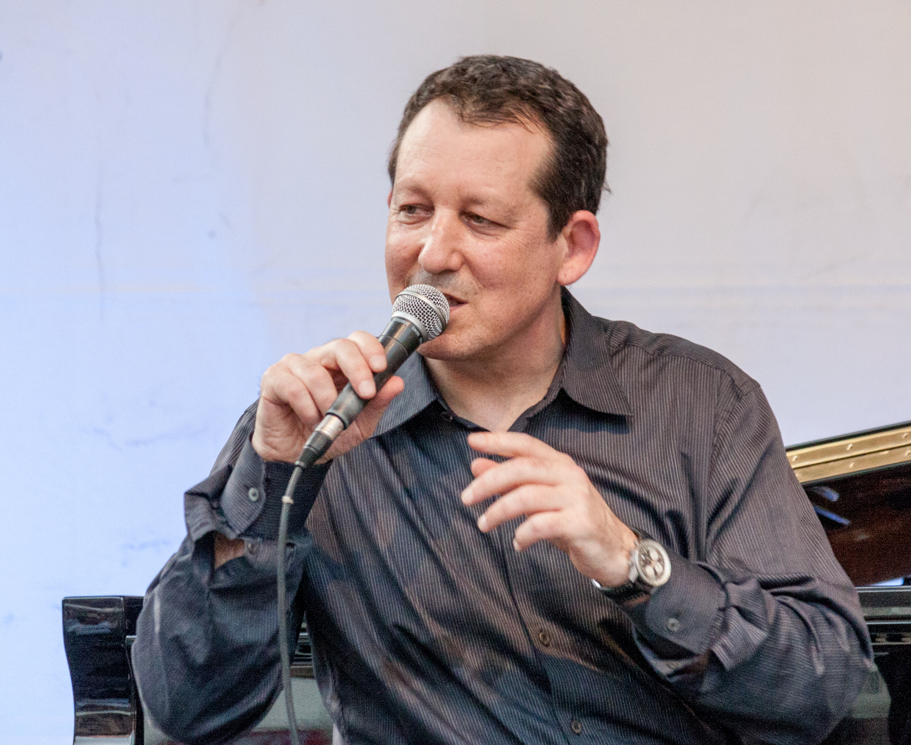 Jeff Lorber feat. Eric Marienthal - Jazz na Starówce festival 2012-08-04, Warsaw, Poland